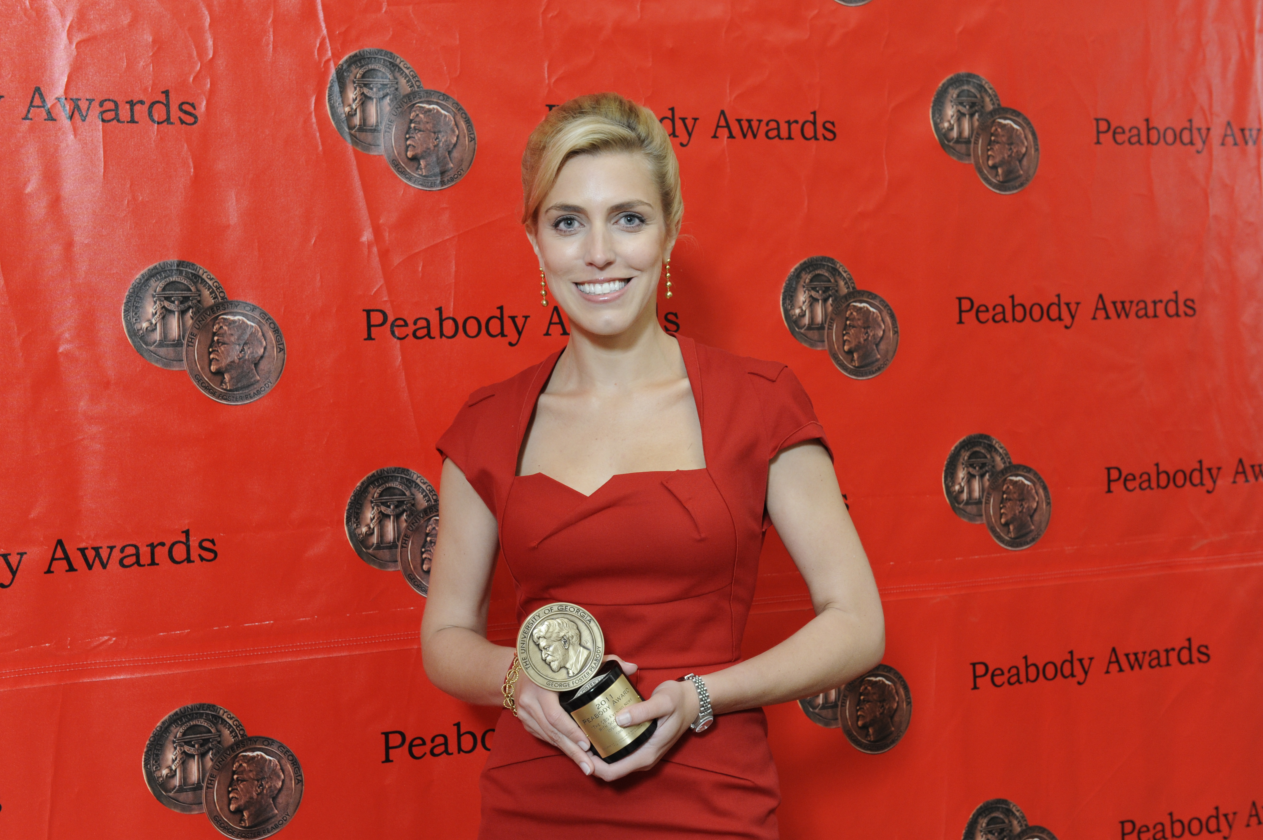 Clarissa Ward in 2012, holding the Peabody Award she had just received for news reporting from Syria during the Syrian uprising. Photo taken at the 71st Annual Peabody Awards Luncheon, held at the Waldorf-Astoria Hotel, in New York. PHOTO CREDIT: ANDERS KRUSBERG / PEABODY AWARDS